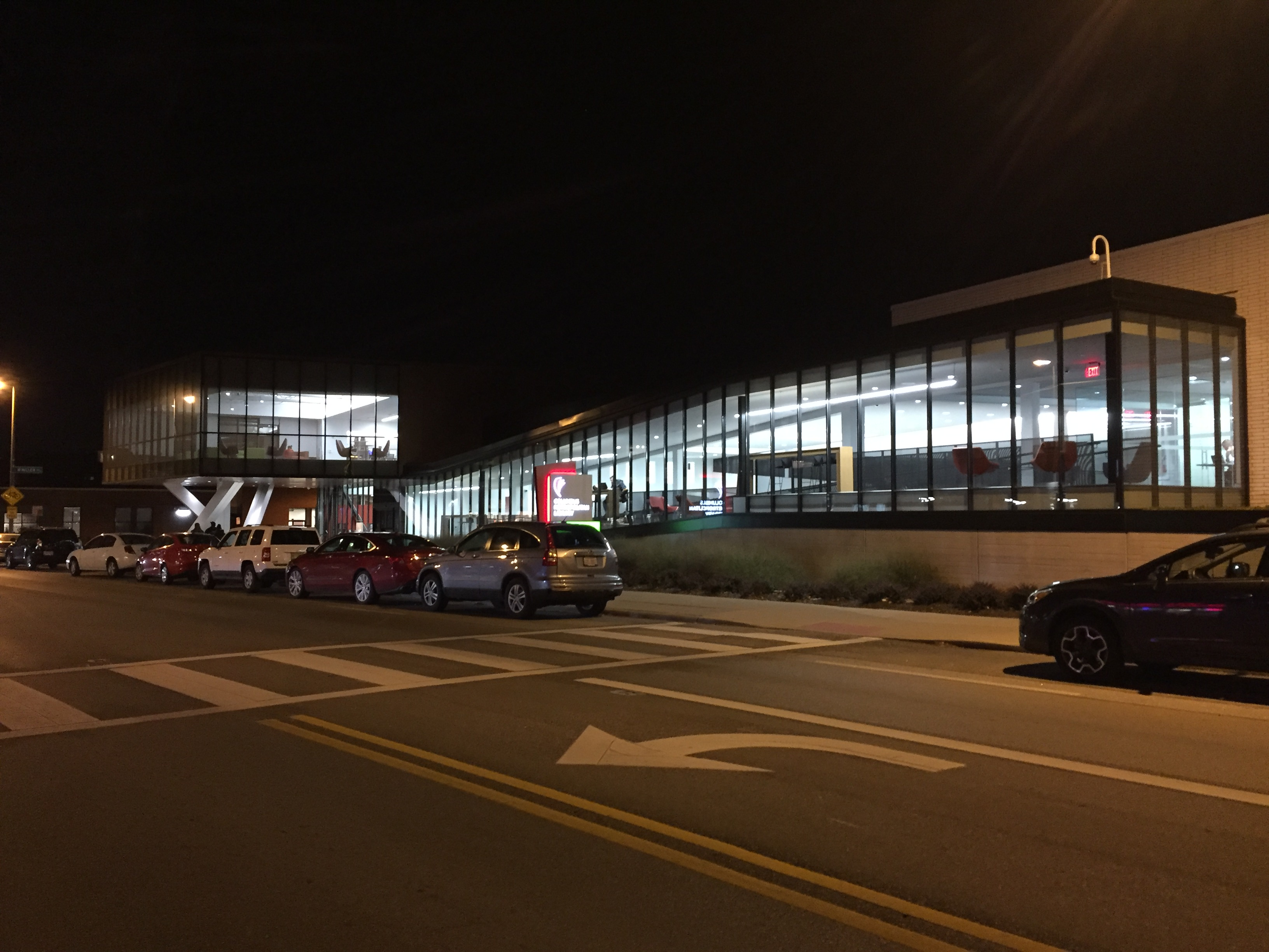 Northside Branch of the Columbus Metropolitan Library at night in 2018